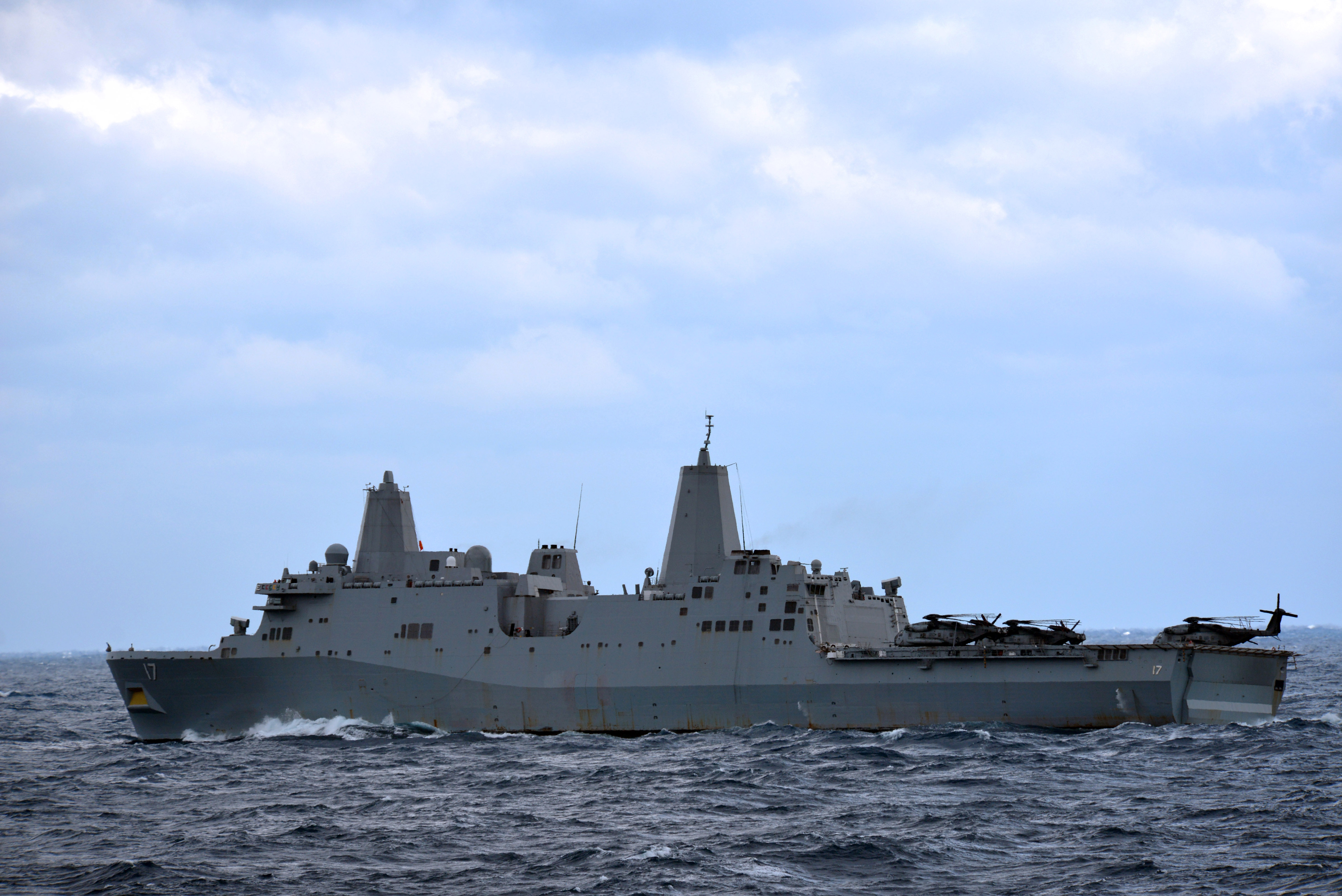 The amphibious transport dock ship USS San Antonio (LPD 17) steams through the Atlantic Ocean March 14, 2013. The San Antonio was part of the Kearsarge Amphibious Readiness Group and was under way on a scheduled deployment to the U.S. 5th and 6th Fleet areas of responsibility supporting maritime security operations and theater security cooperation efforts.